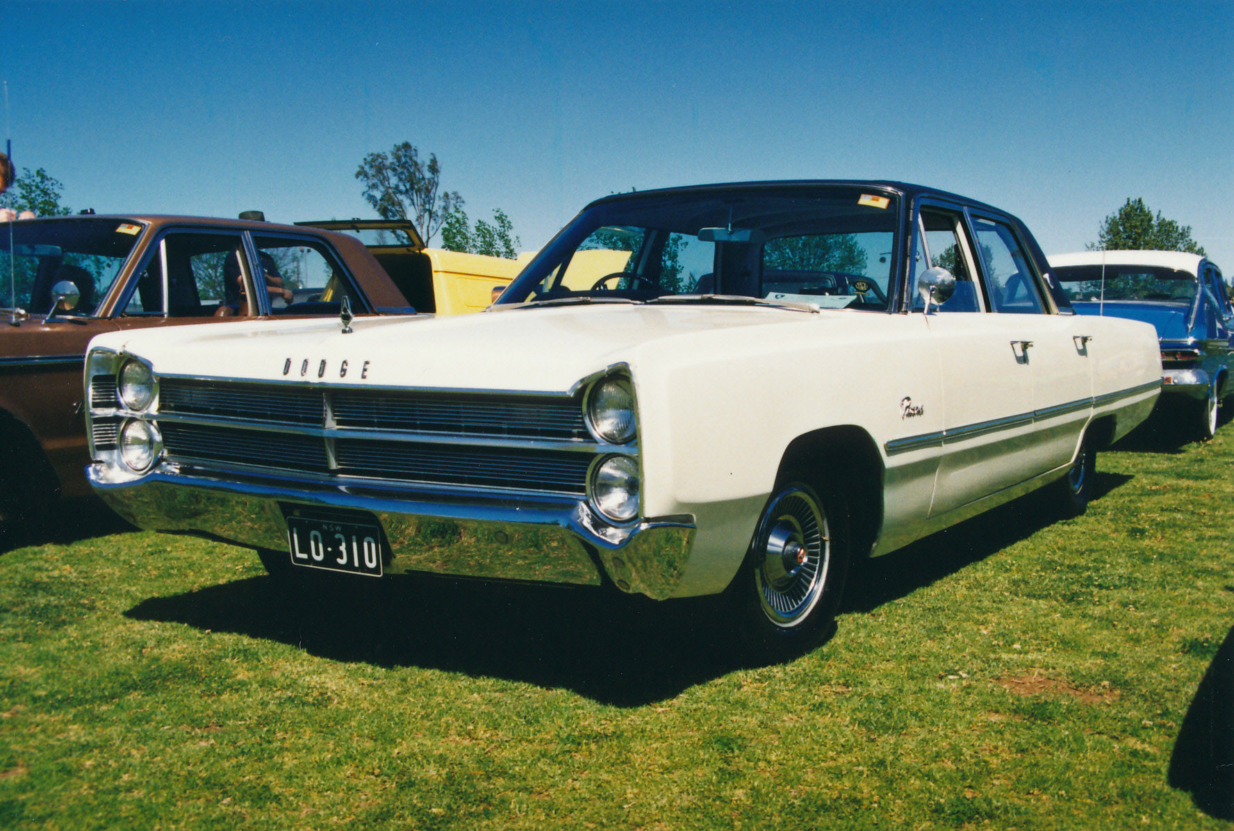 Dodge DC Phoenix Sedan. Image is a scan of a 35 mm print taken at the 1993 All Chrysler Day at Camden